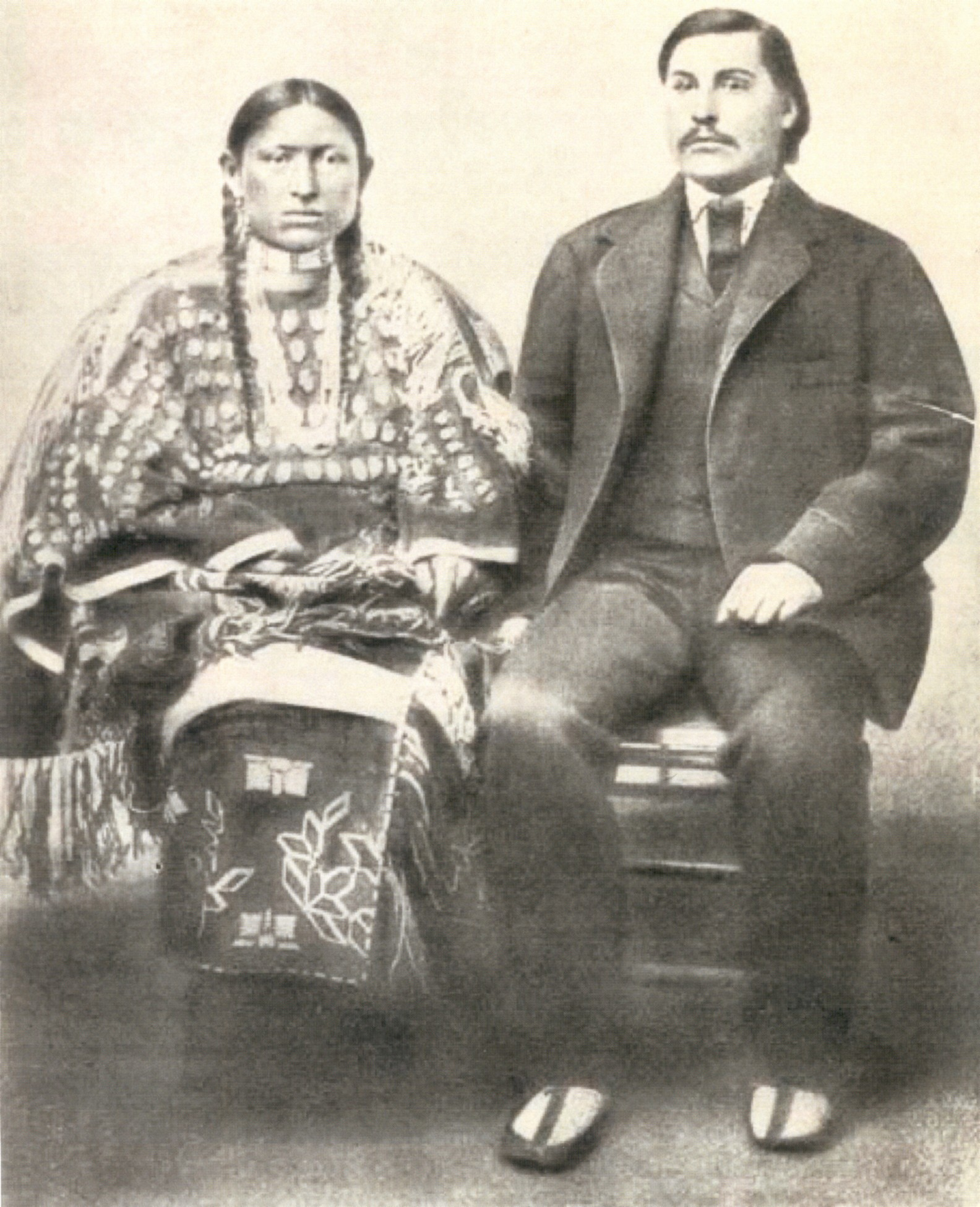 George Bent and Magpie present their wedding attire to the camera in 1867. A survivor of the Sand Creek Massacre, Bent married Magpie and continued to translate for peace chiefs and Indian Agents of the Cheyenne.